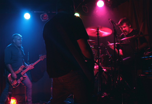 Cosmic Psychos performing on 24 June 2007.